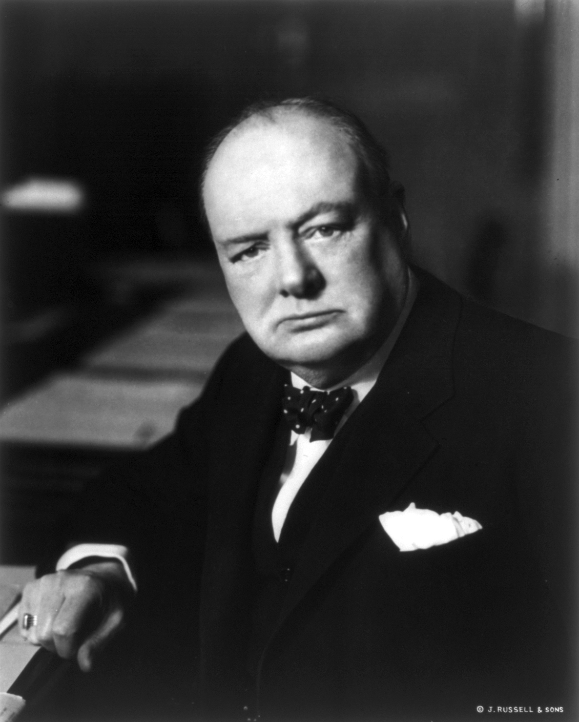 Sir Winston Churchill, Prime Minister of the United Kingdom